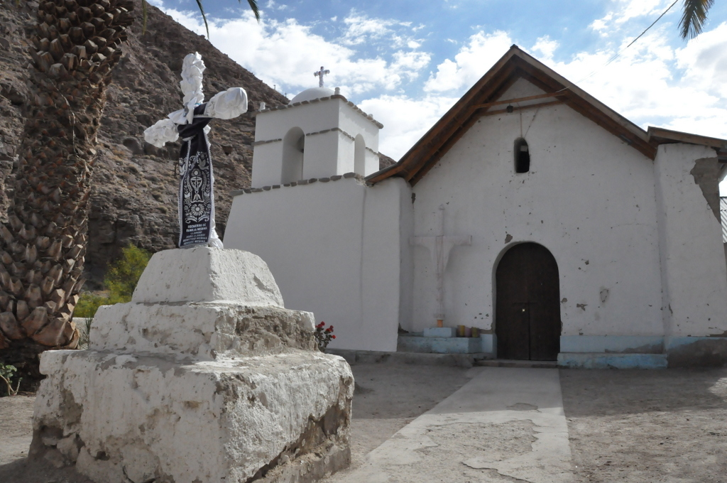 San Pedro Chapel, Timar village, Region de Arica y Parinacota